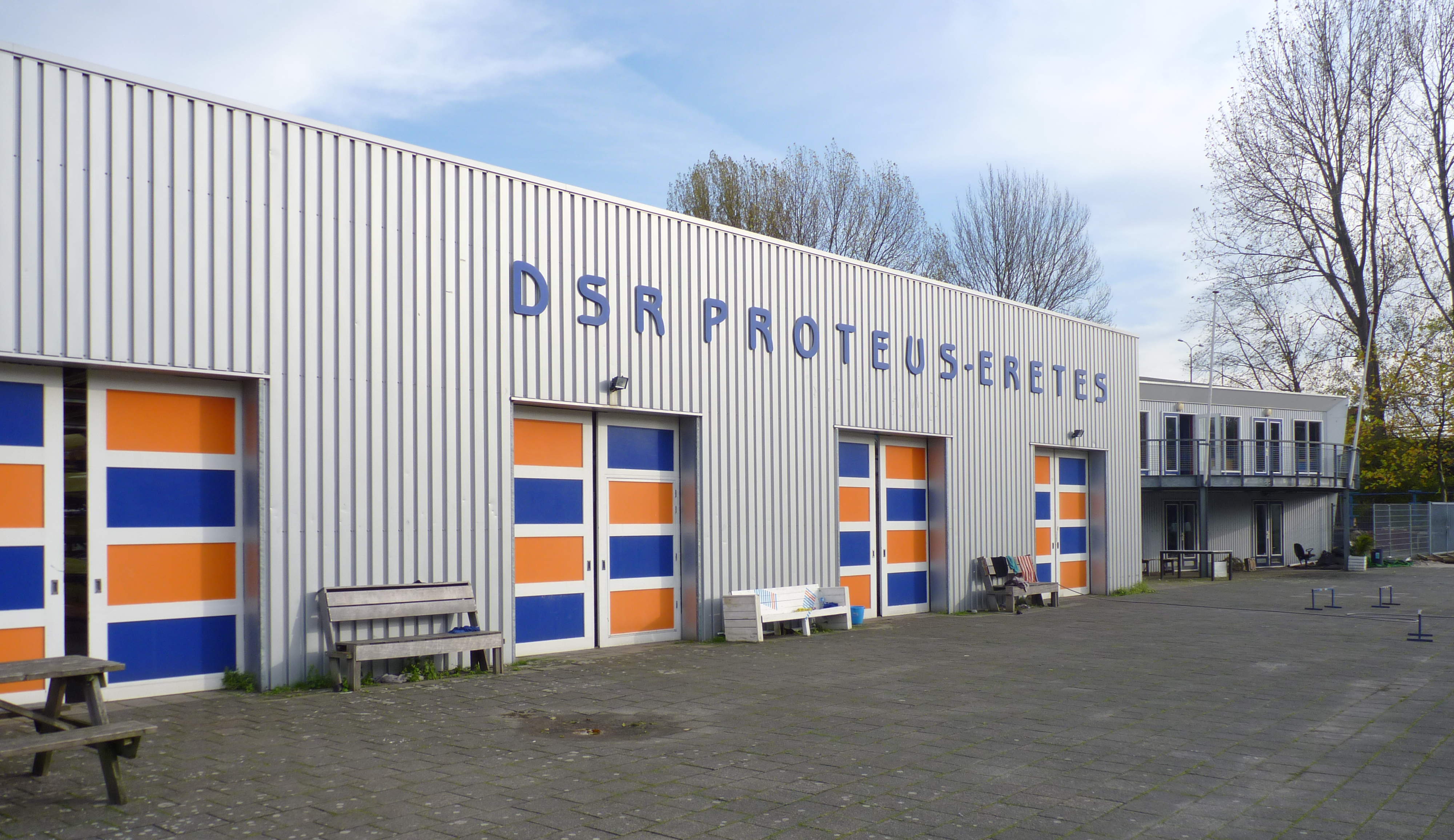 "De Beuk"